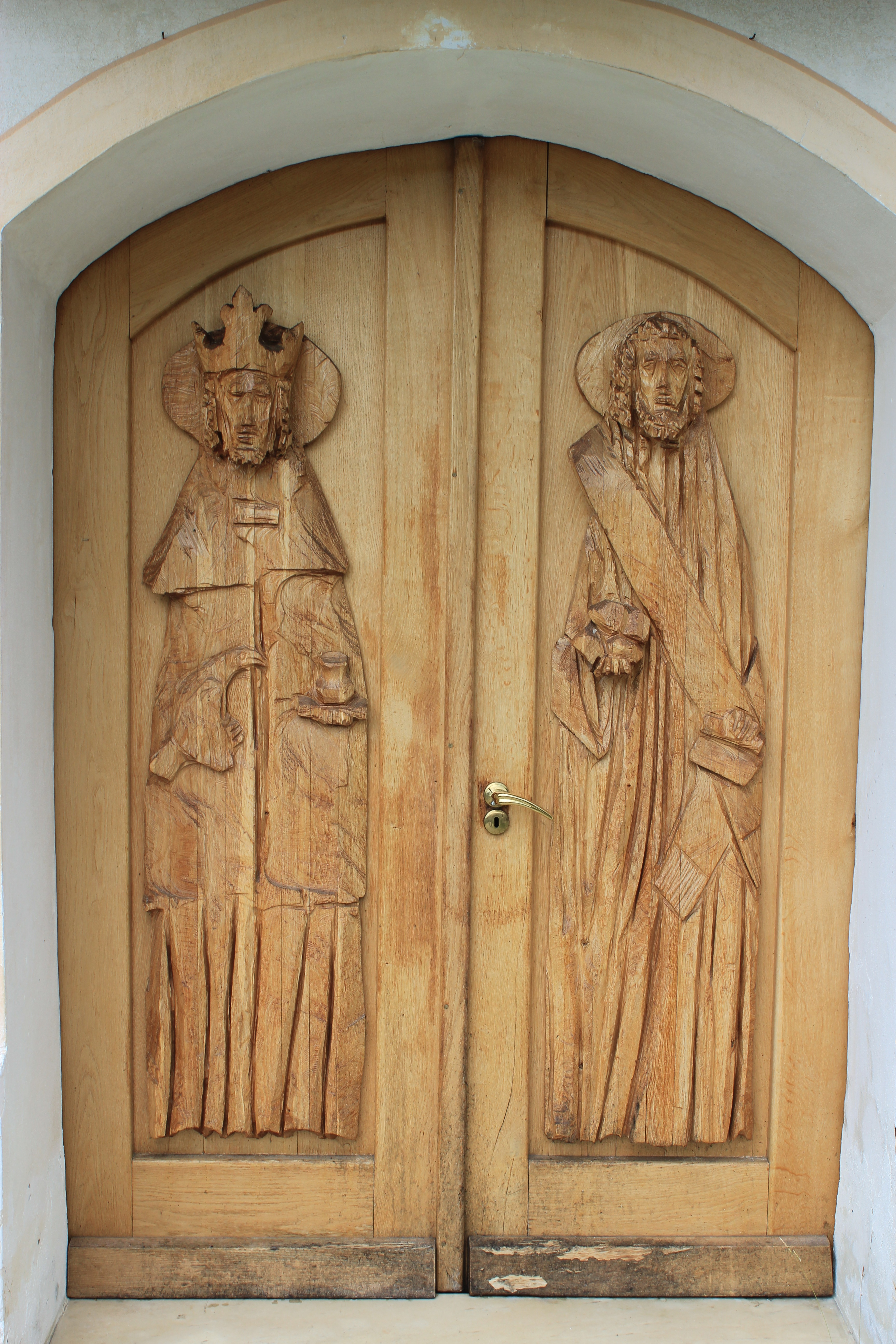 Church in Sankt Stefan in the community of Straßburg - Portal